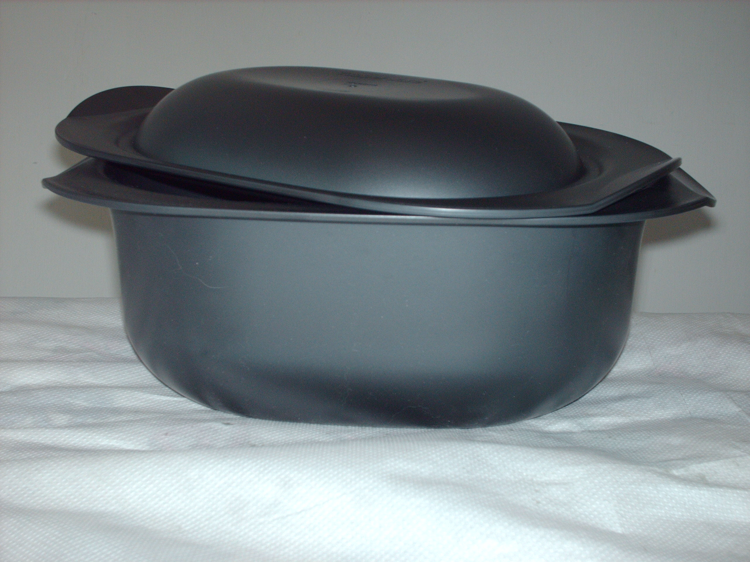 One of the Tupperware's Ultraplus line product